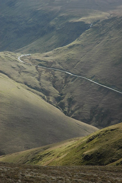 The Newlands Pass, or Newlands Hause, in Cumbria. Viewed from just below the summit of Whiteless Pike. For more information see the Wikipedia articles Newlands Pass and Whiteless Pike.